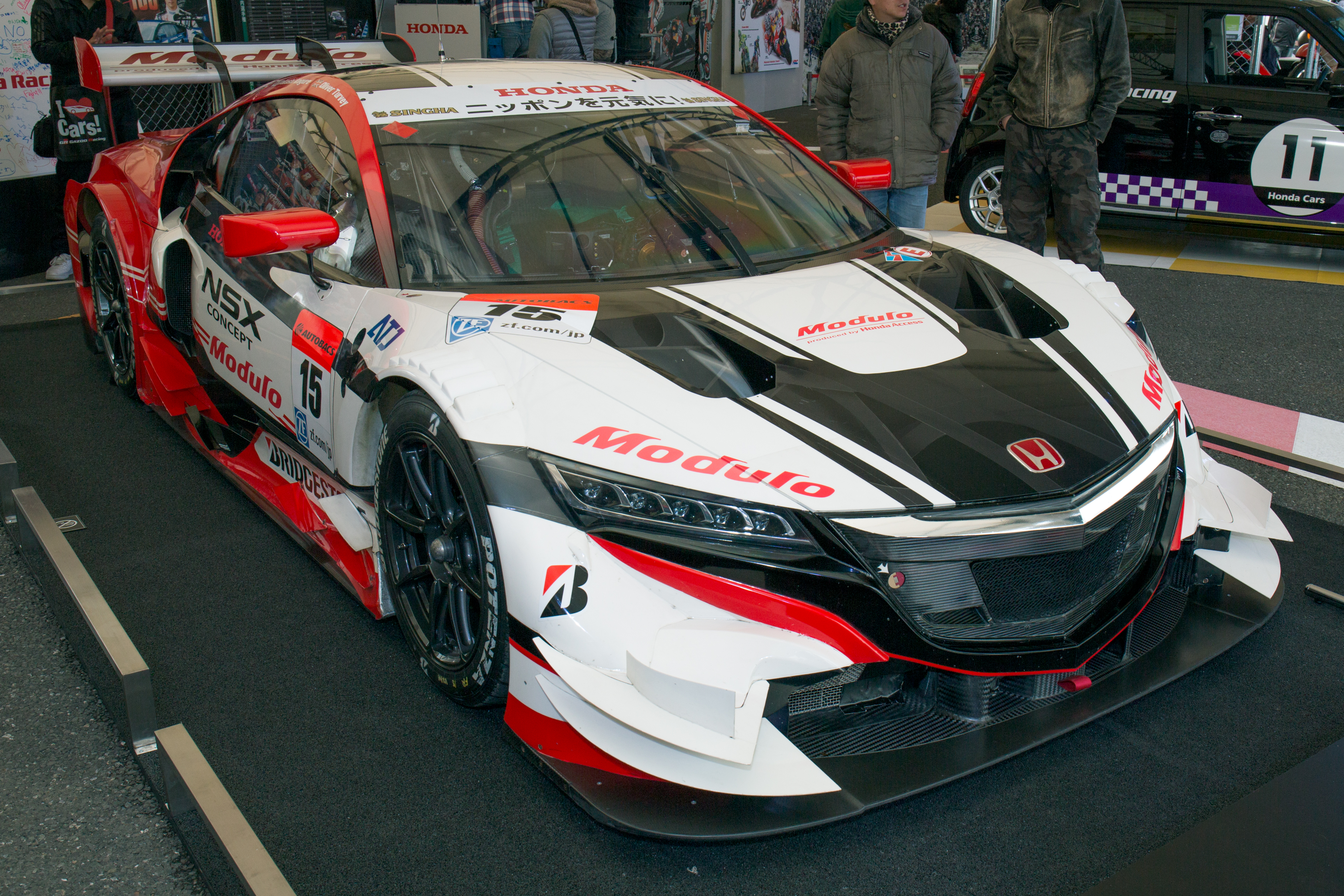 Motorsport Japan 2015: 2015 Honda NSX Concept-GT (Drago Corse)